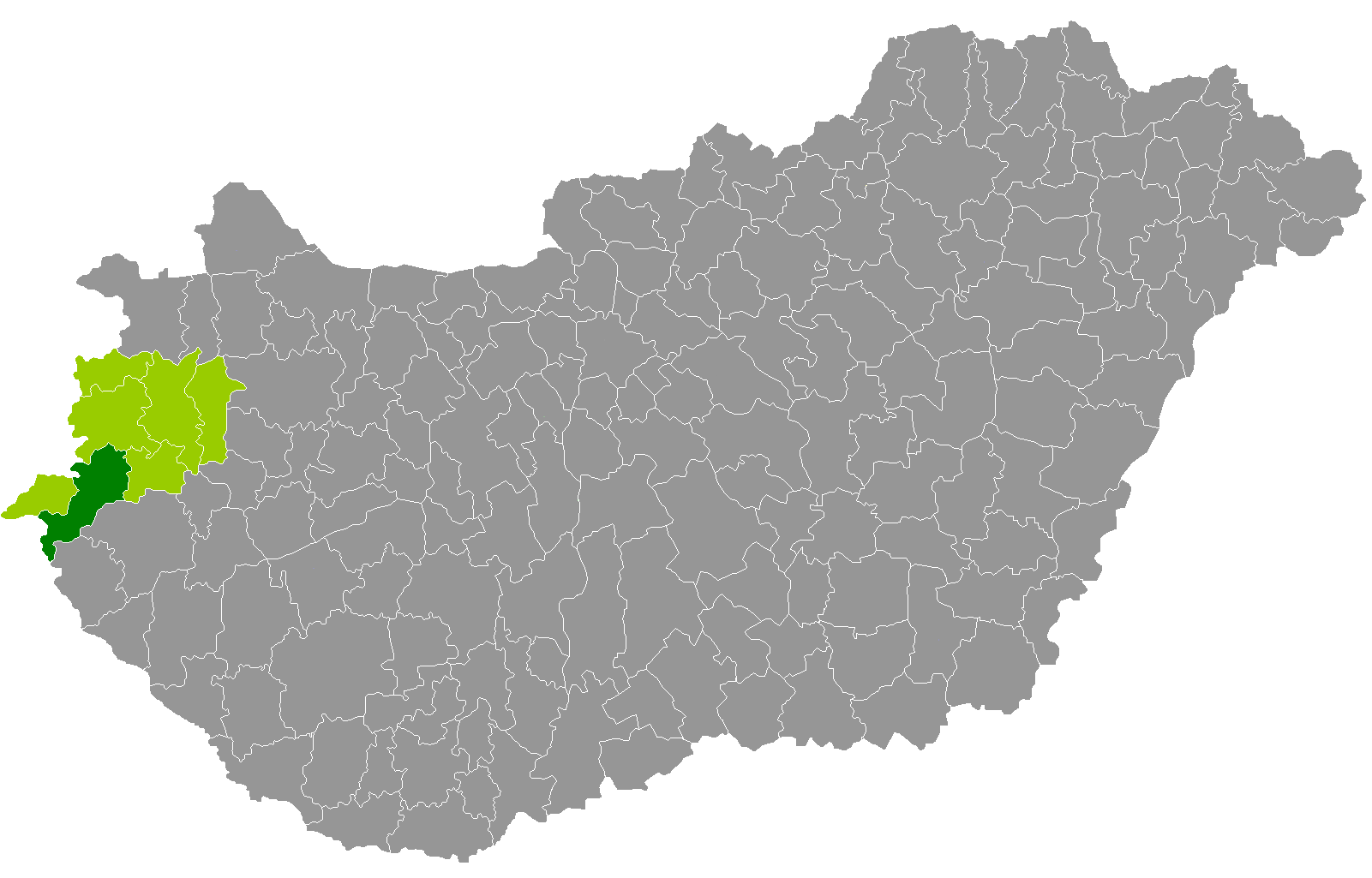 Location of Körmend District, Vas, Hungary